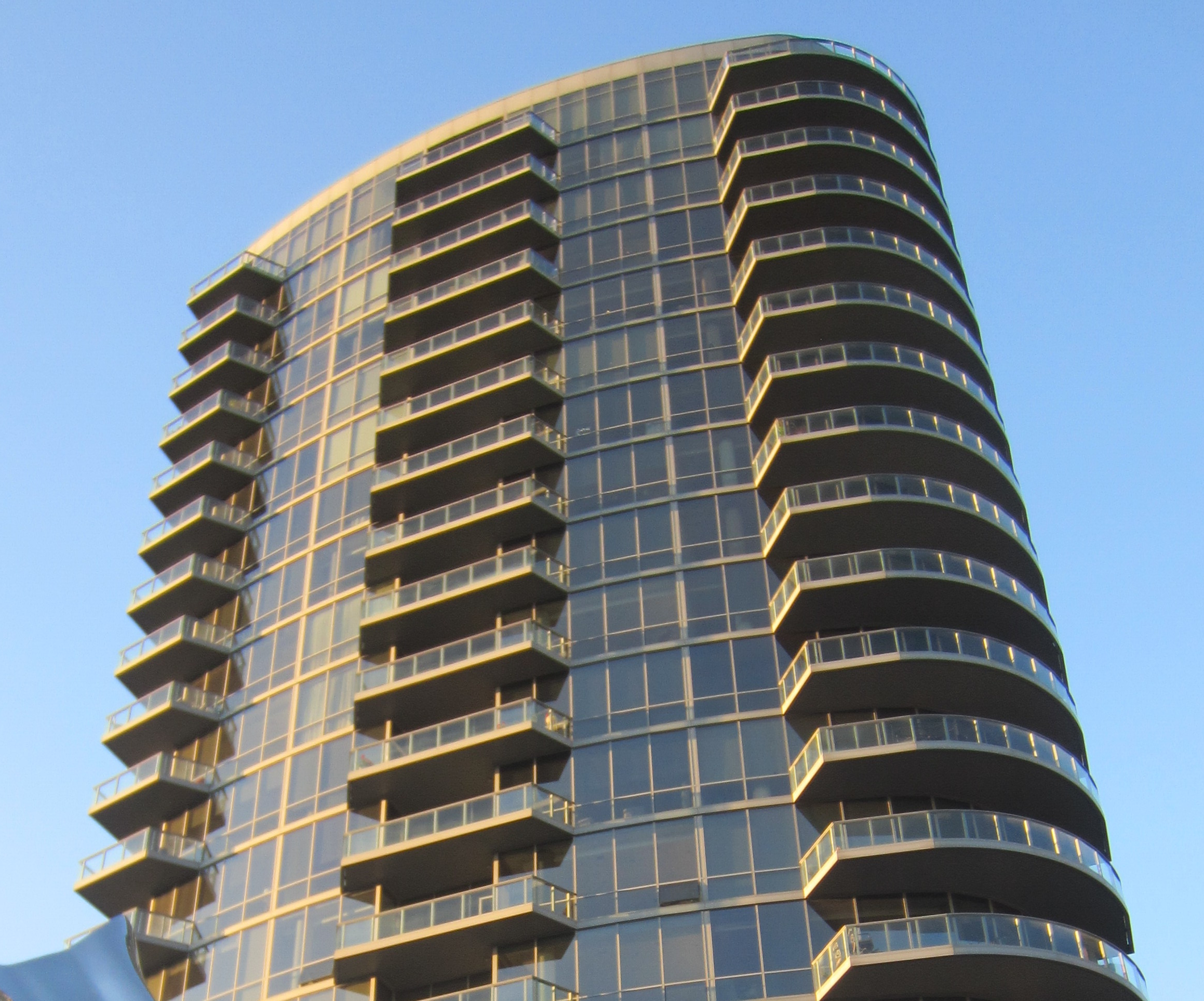 Columbus, Ohio (2018)